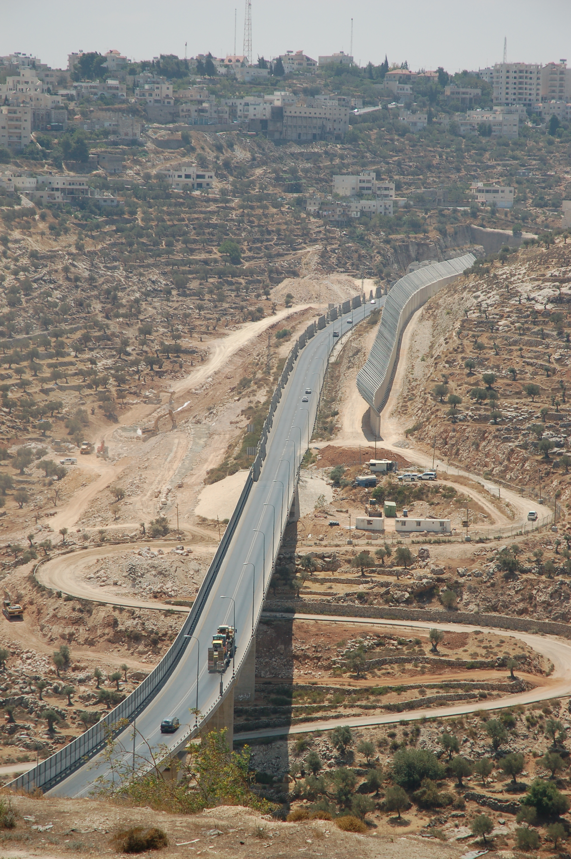 West Bank, Near Giloh, Jerusalem, the Tunnels Road